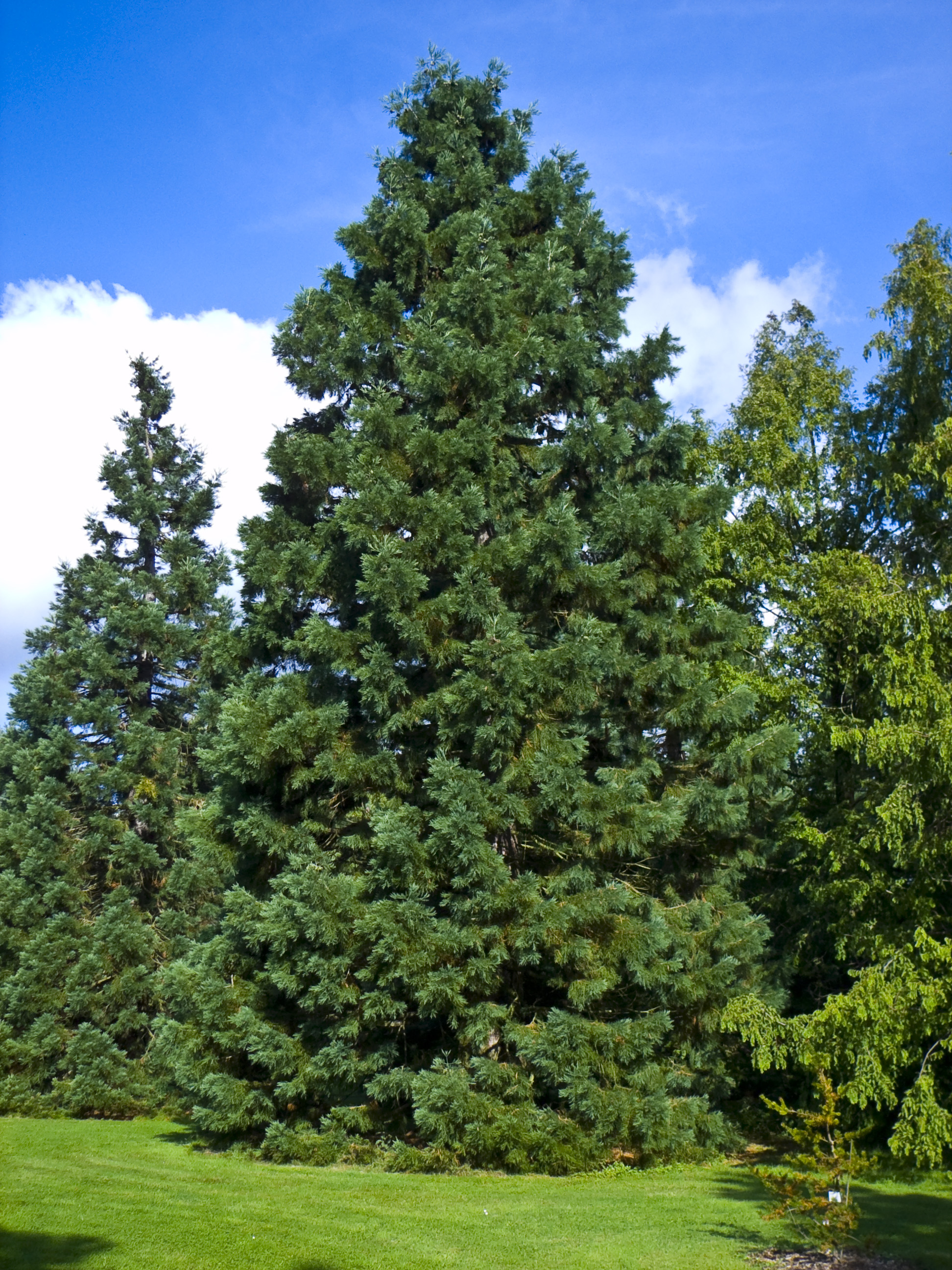 Giant Sequoia (Sequoiadendron giganteum) in the New Botanical Garden Marburg, Hesse, Germany